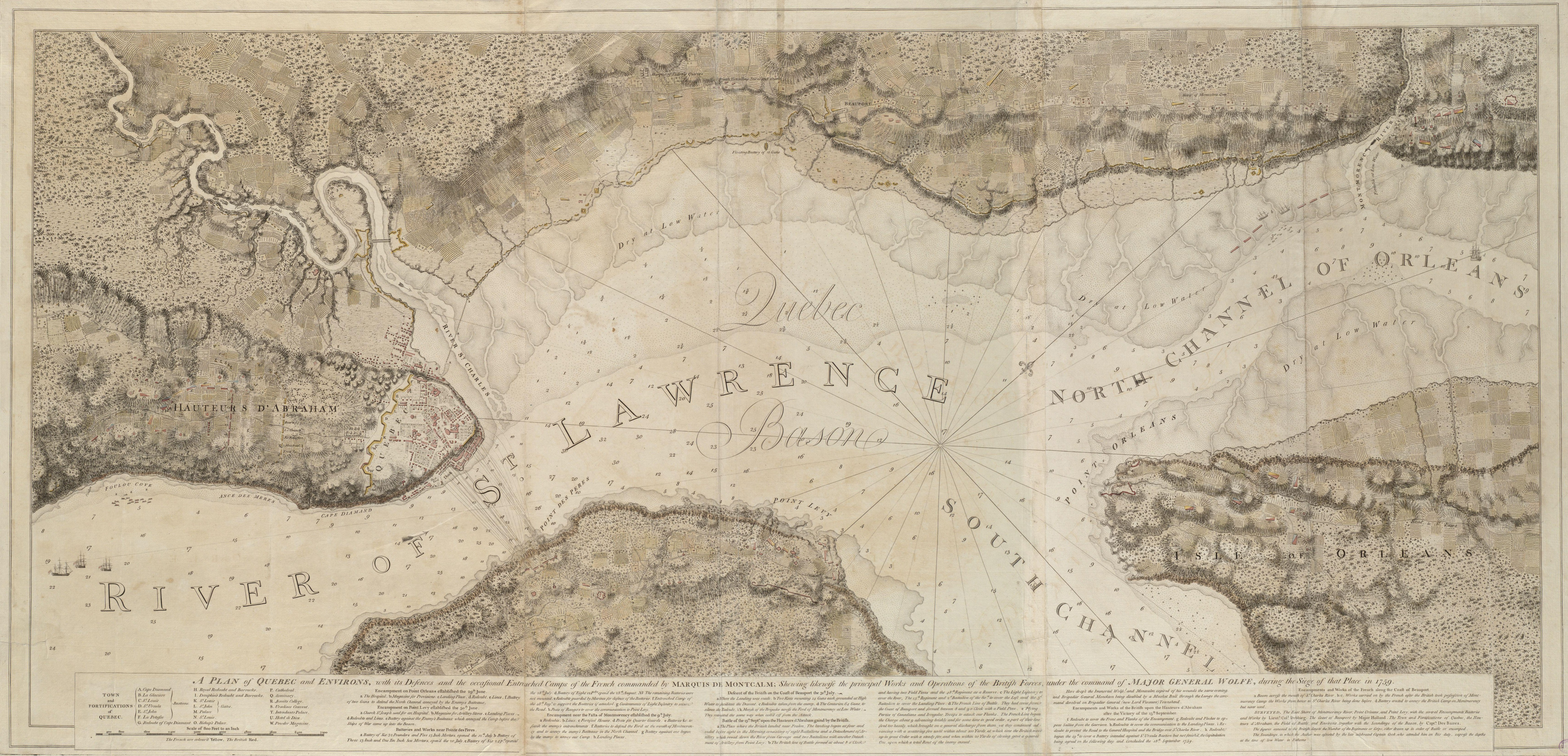 This is a map depicting the troop arrangements at the 1759 Siege of Quebec. The caption reads: A Plan of Quebec and Environs, with its Defenses and the occasional entrenched Camps of the French commanded by Marquis de Montcalme; shewing likewise the principal Works and Operations of the British Forces, under the command of Major General Wolfe, during the Siege of that Place in 1759.